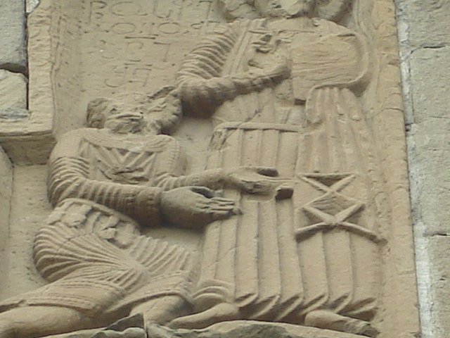 A 7th-century bas-relief from the Monastery of the Holy Cross at Mtskheta, Georgia. It depicts the 7th-century Georgian prince Adarnase praying before Jesus Christ.